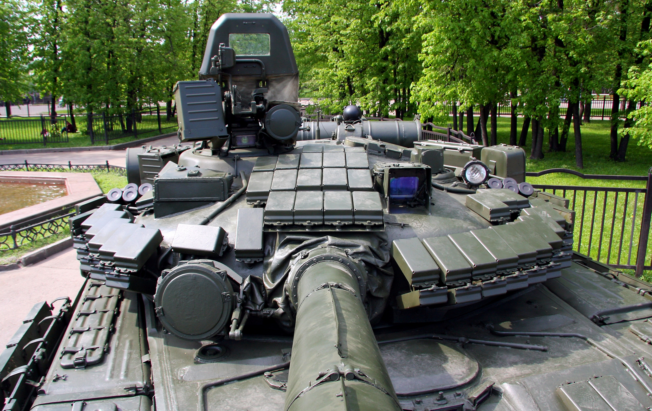 The turret of a Russian T-80BV.